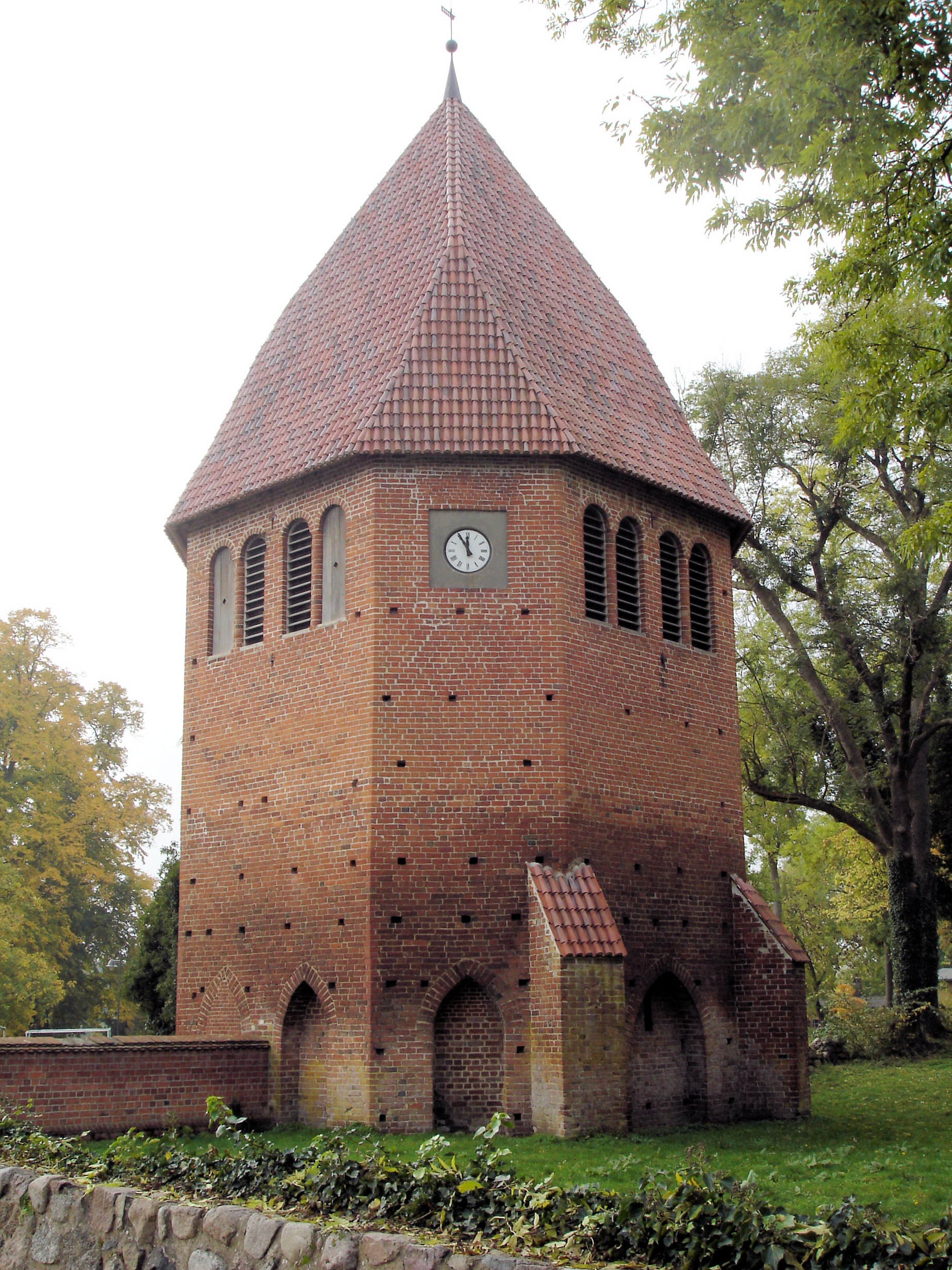 bell tower of the monastery Neukloster, Mecklenburg, Germany